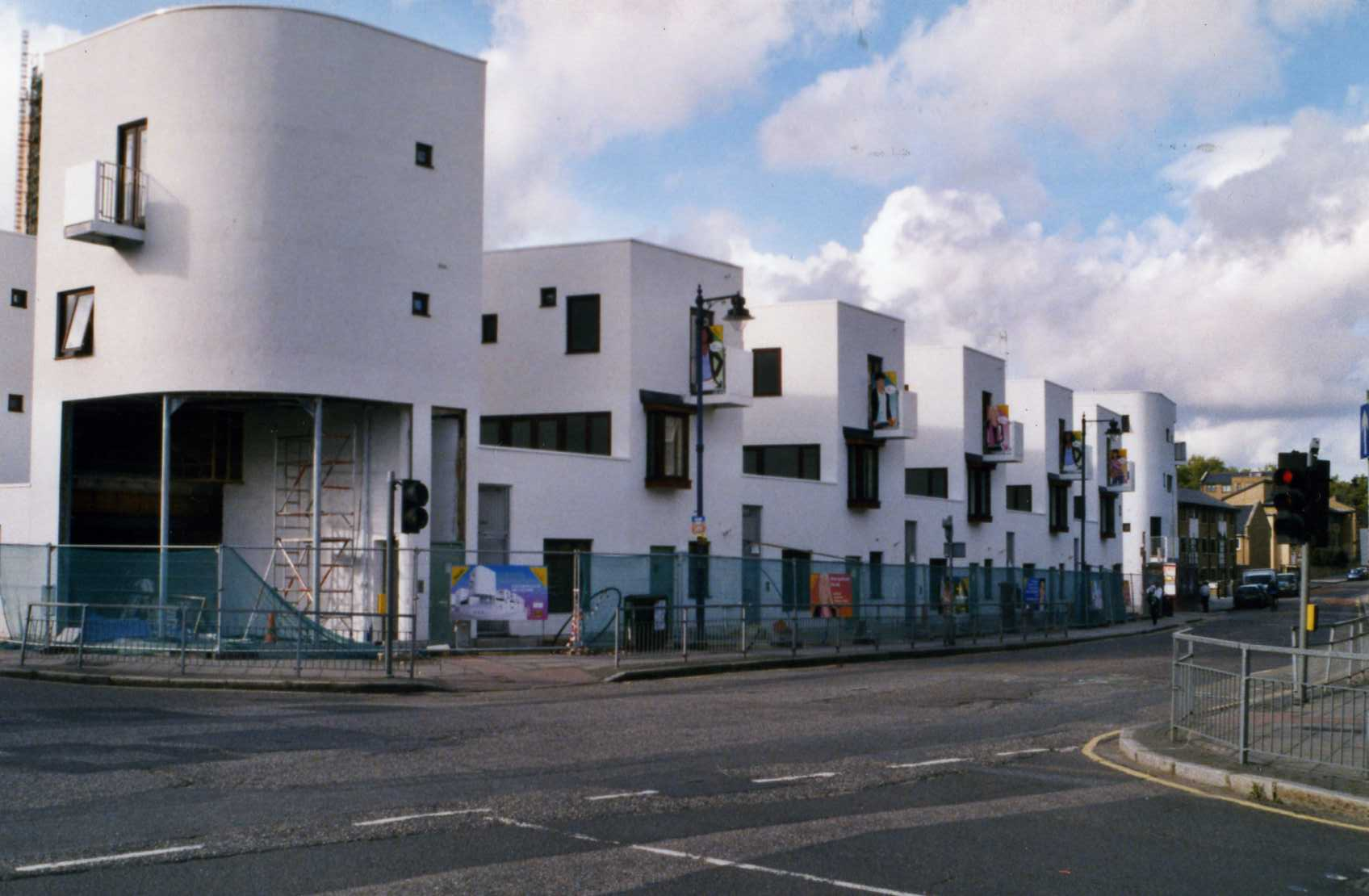 Towards the end of construction of Fabrika, 2005. Quite where the title "donnybrook",redolent of Dublin, came from I have no idea. I like fabrika which hints at czech influences.